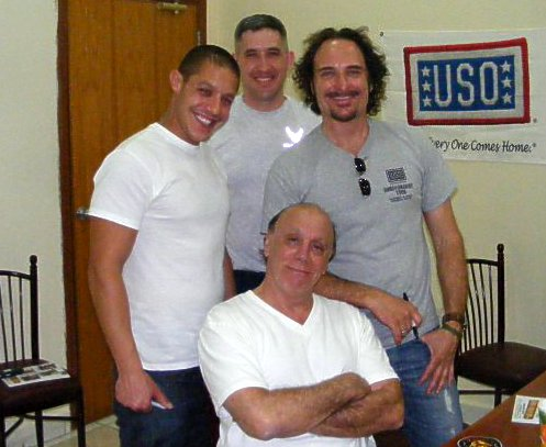 U.S. Air Force member with members of the Sons of Anarchy crew in Kuwait during a USO visit.